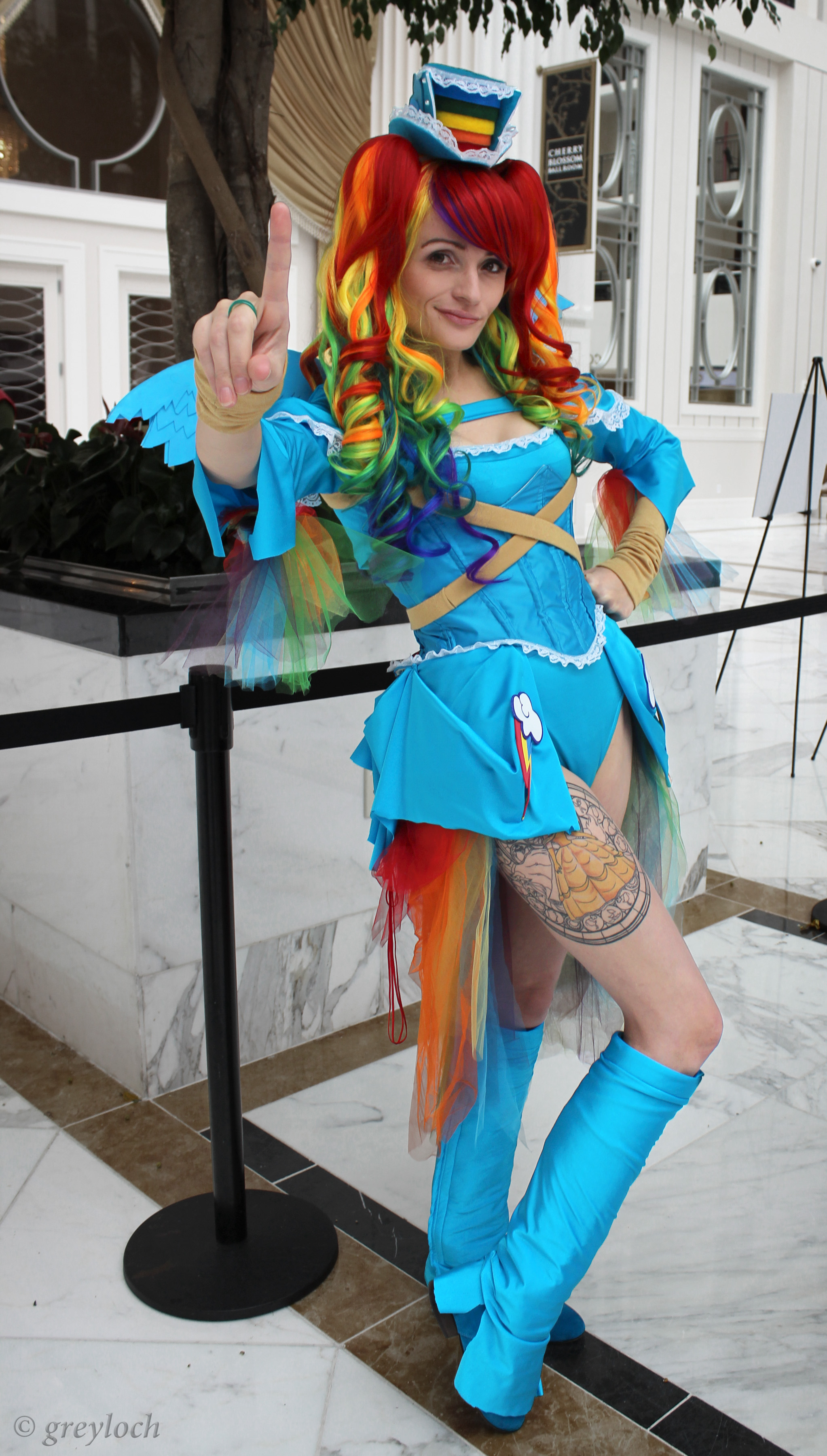 I'm loving her tattoo!